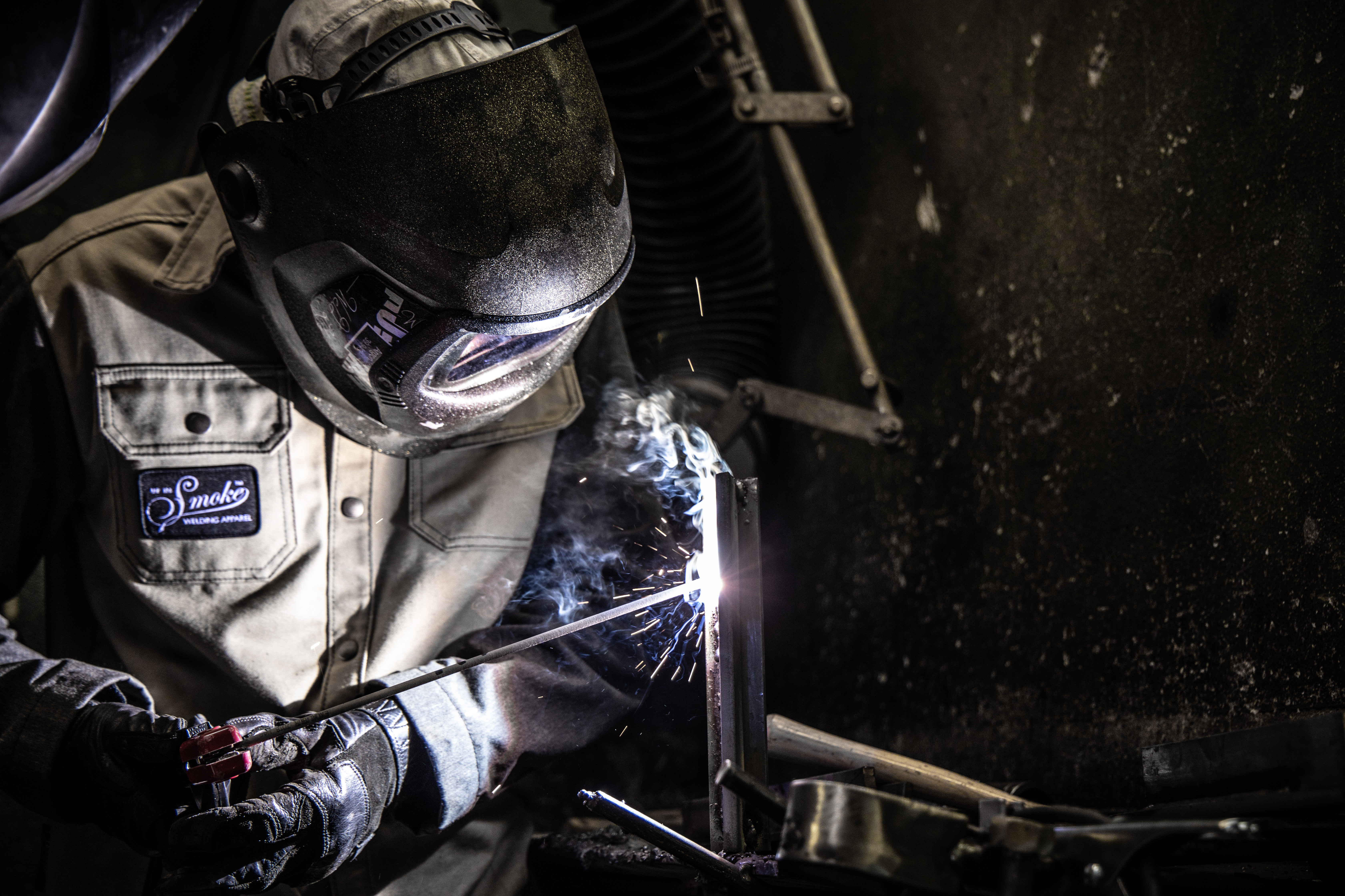 Updated Shielded Metal Arc Welding Photo